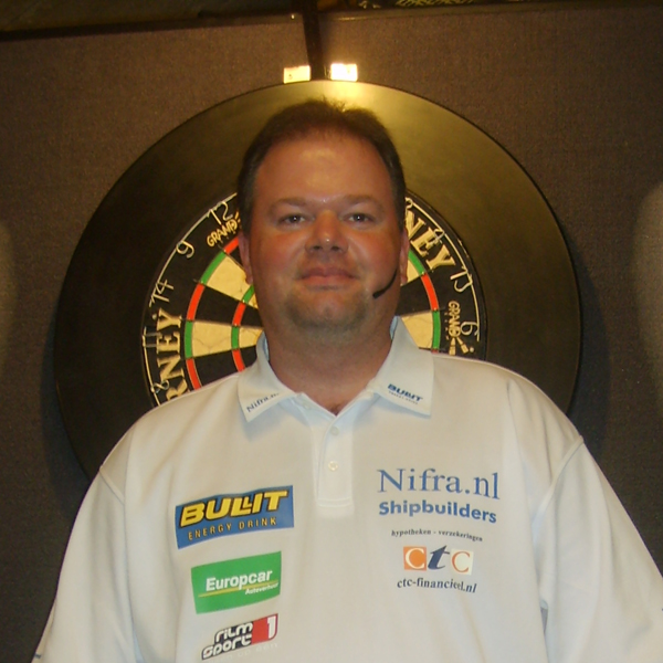 Photograph of dartsplayer Raymond van Barneveld during a promotion event for one of his sponsors.